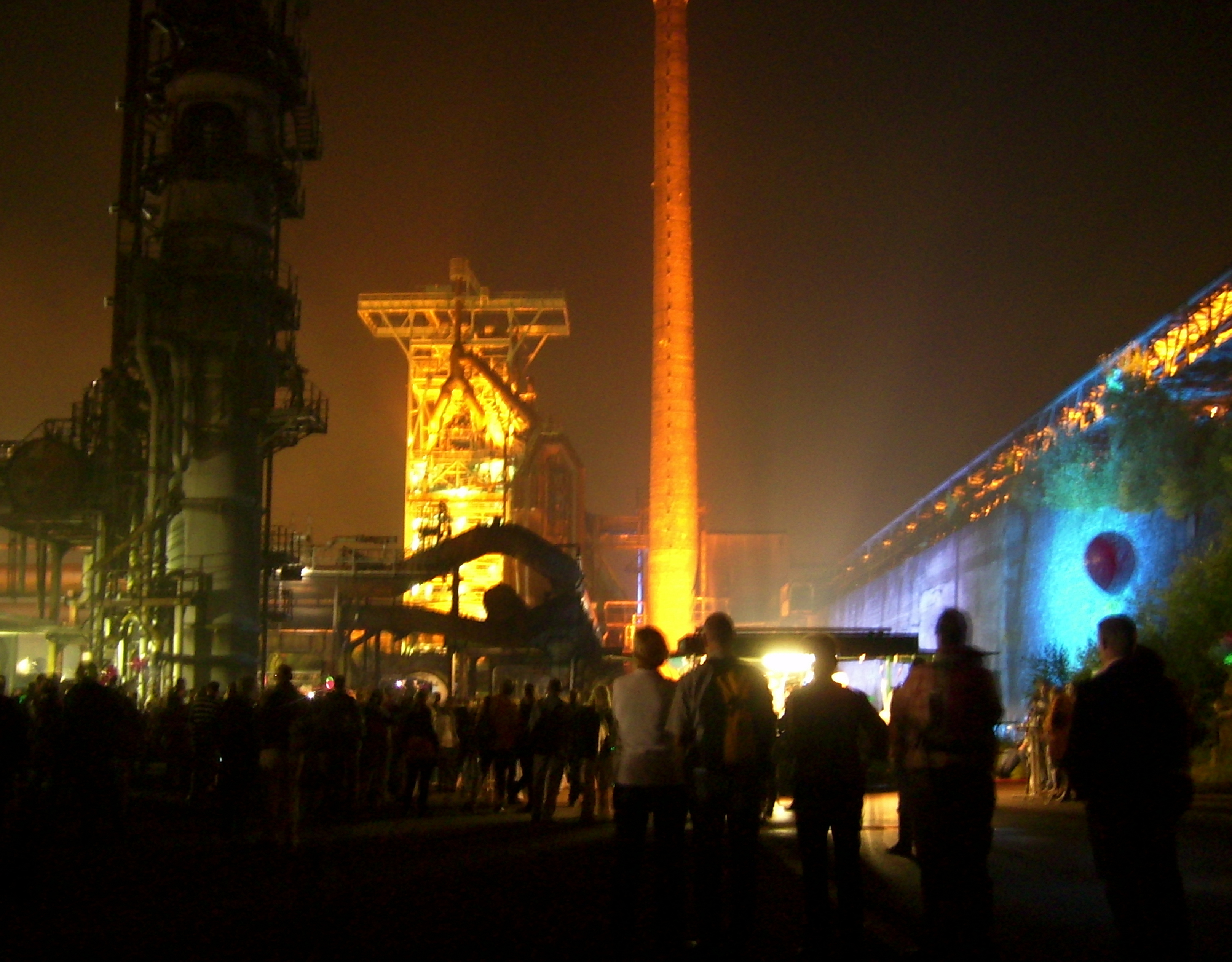 Extraschicht 2009